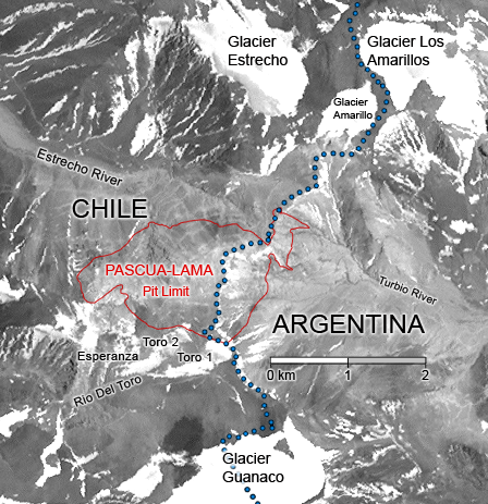 This is a satellite view of Pascua-Lama project area; the open pit is outlined in red. The information was recreated based on the copyrighted image at